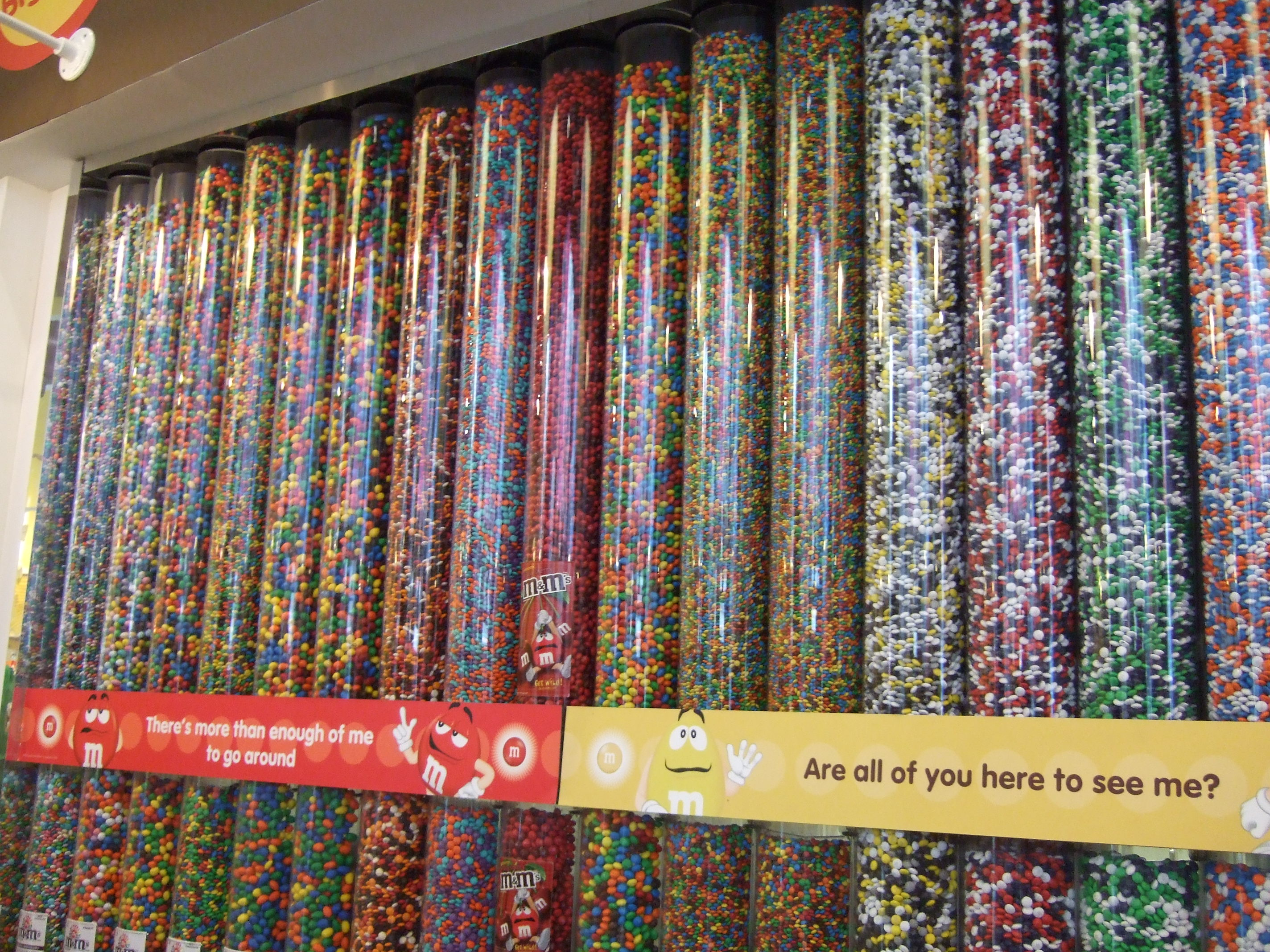 M&M's World New York City - M&M's color wall